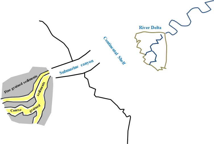 modified from Deptuck et. al., 2003